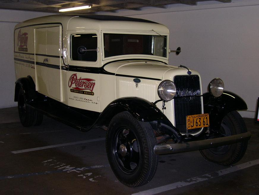 1934 Ford V8 truck From the Petersen Automotive Museum, Los Angeles, CA